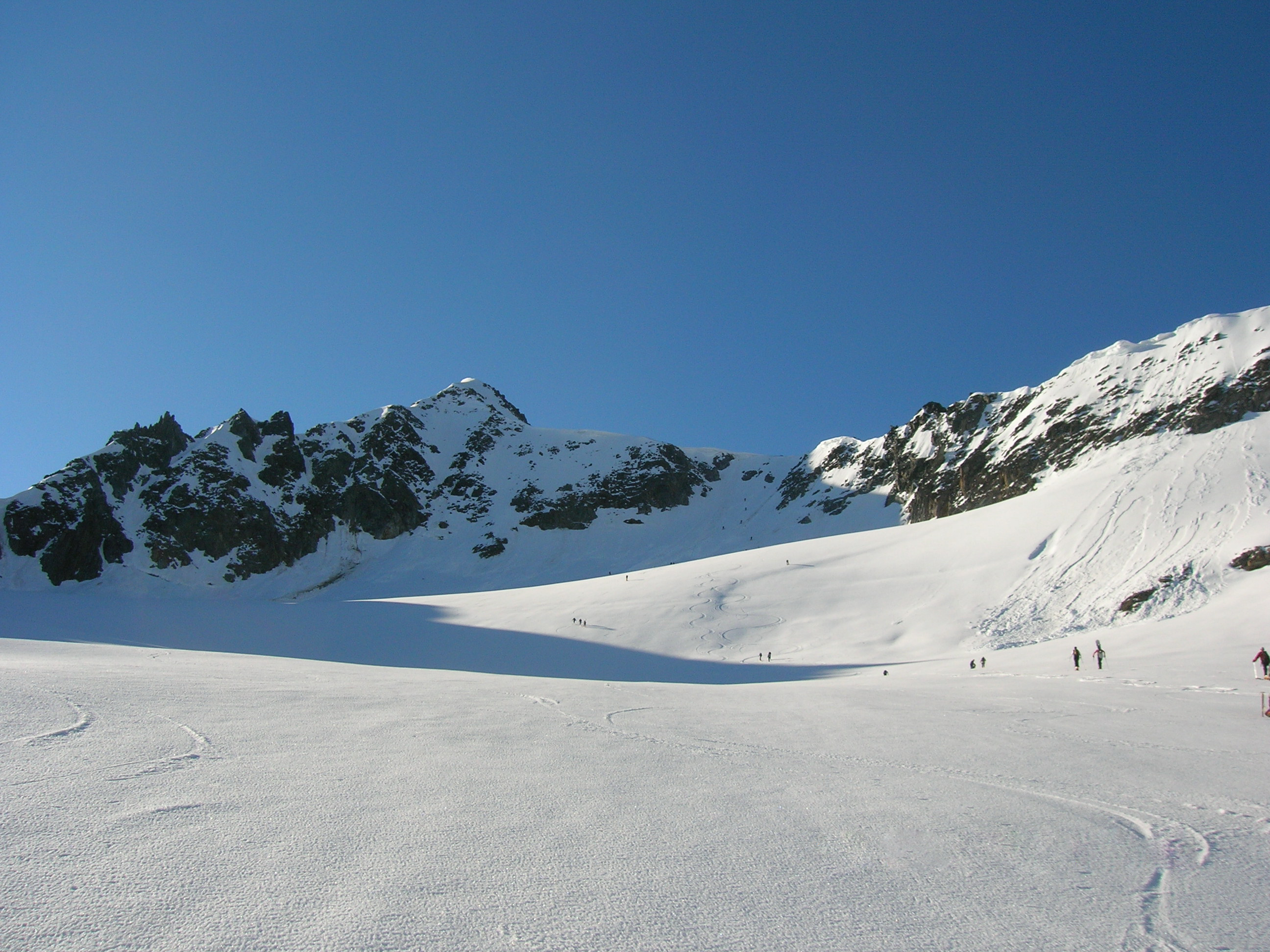 Gross Muttenhorn 3099m from N